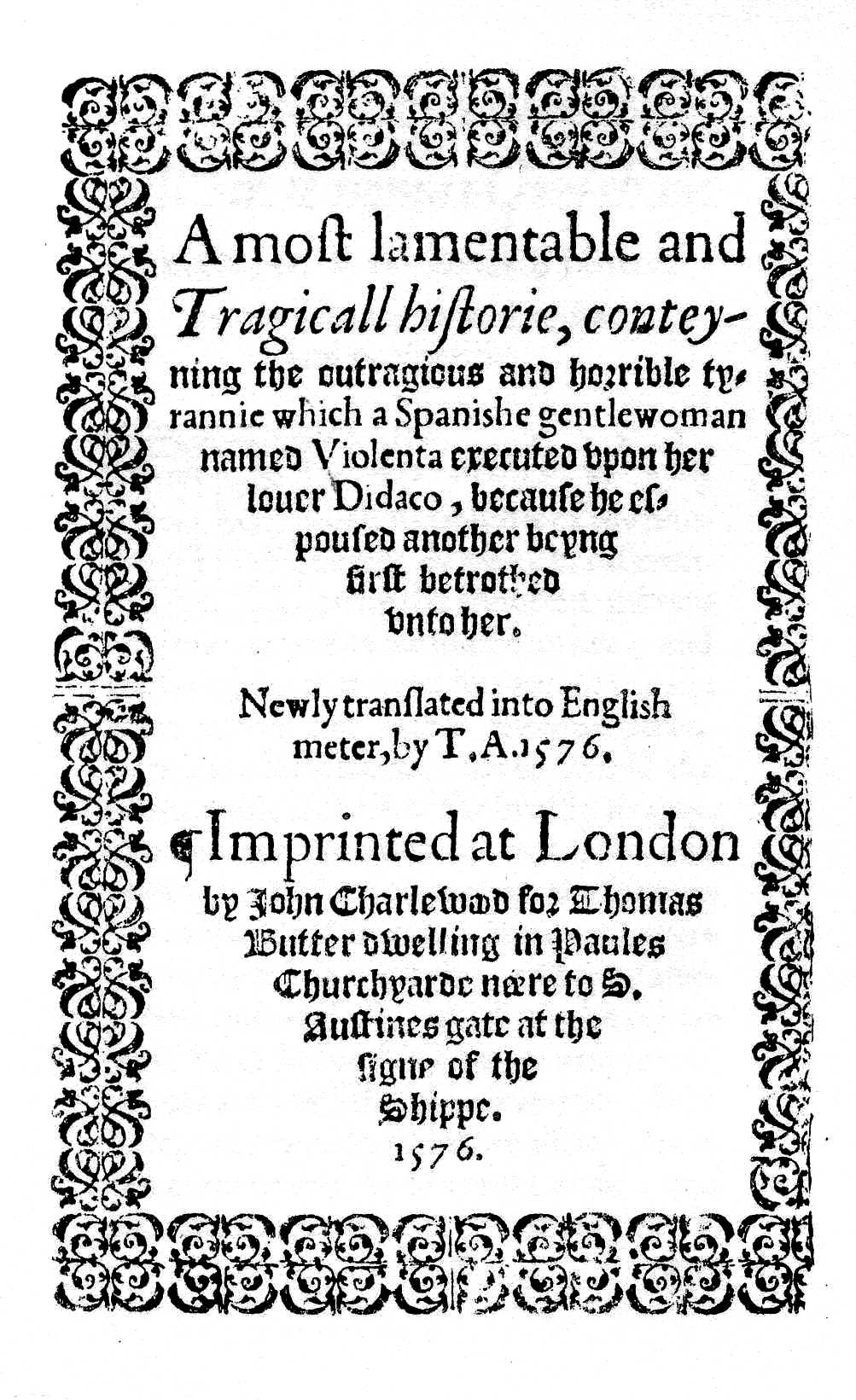 Title page of Thomas Achelley's Lamentable Historie of Violents & Didaco (1576)